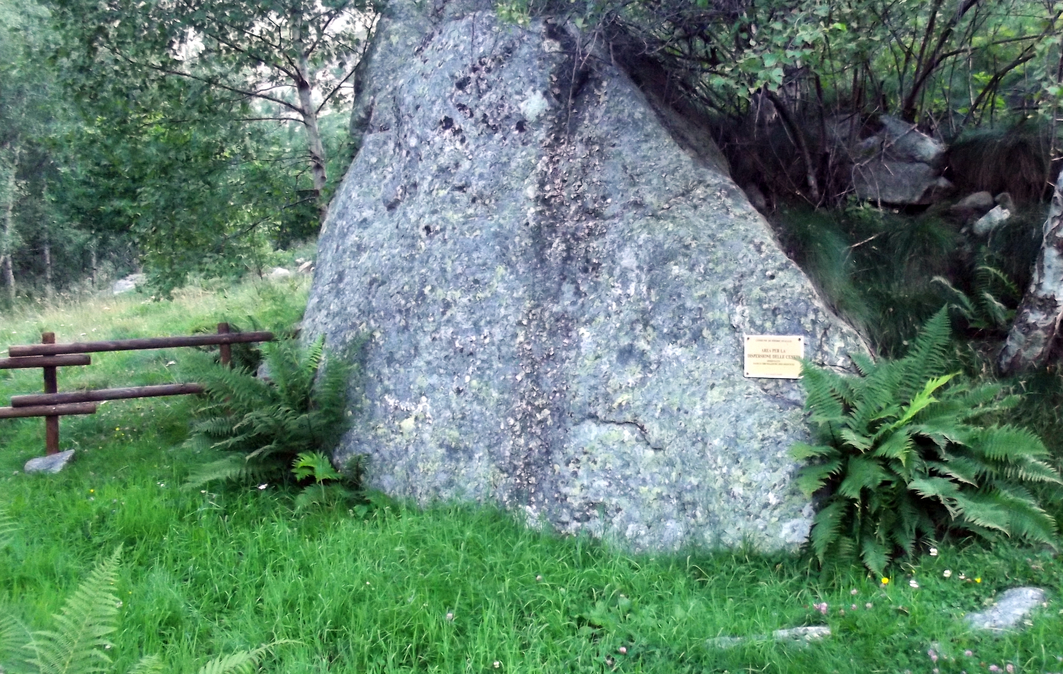 Cremated remains scattering area in Piedicavallo (BI, Italy)